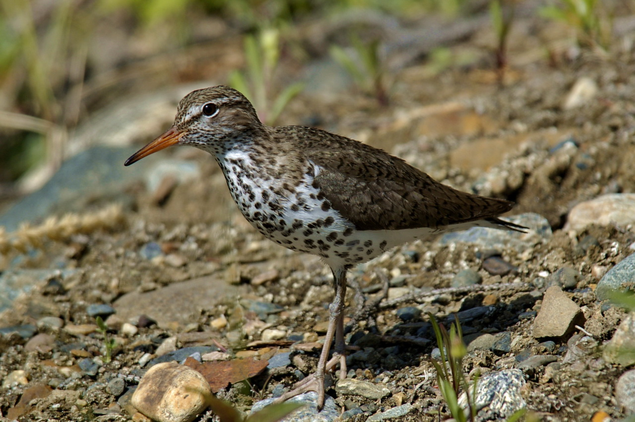 Spotted Sandpiper in Healy, Alaska, USA.